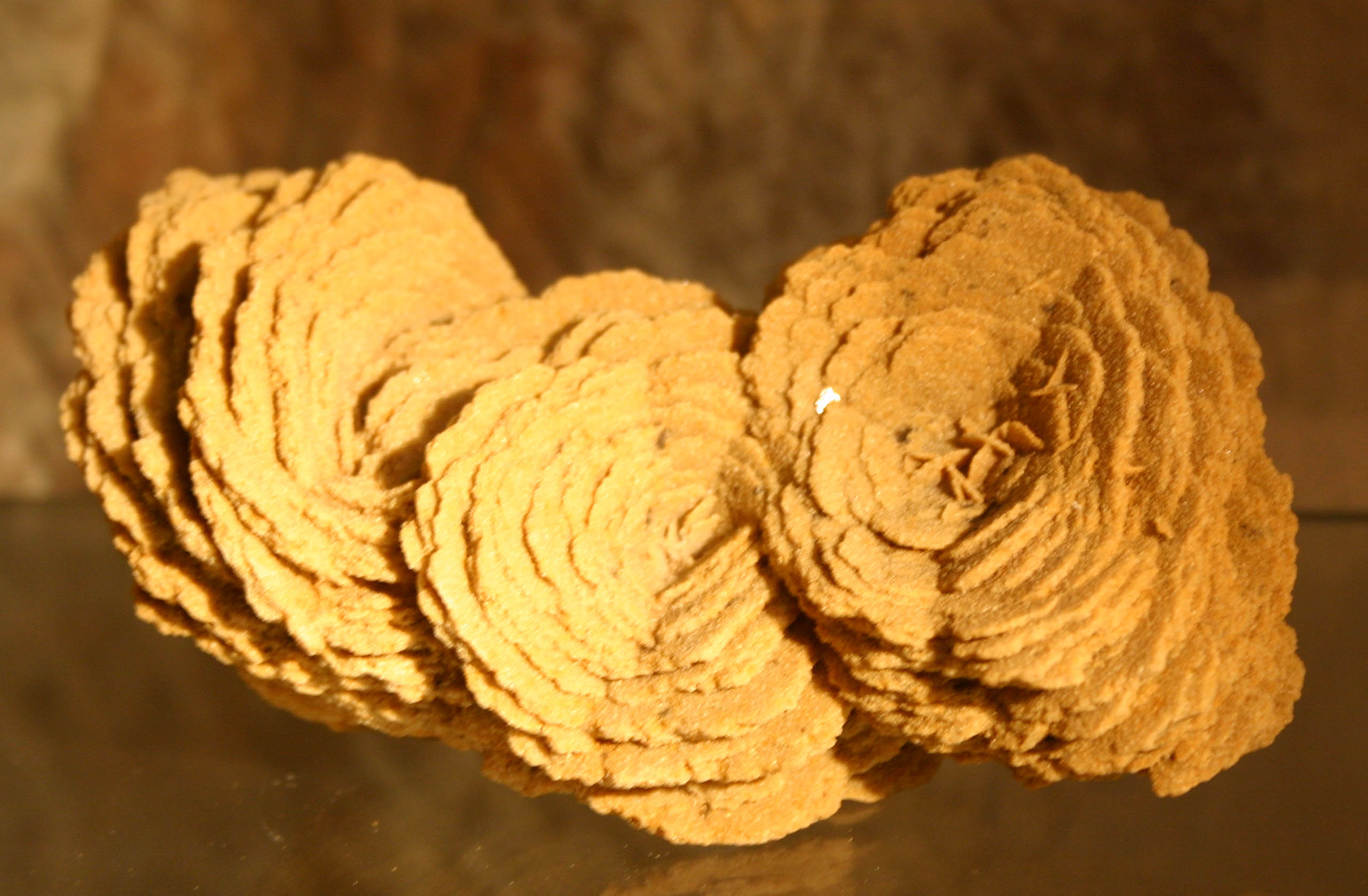 Description: Desert rose